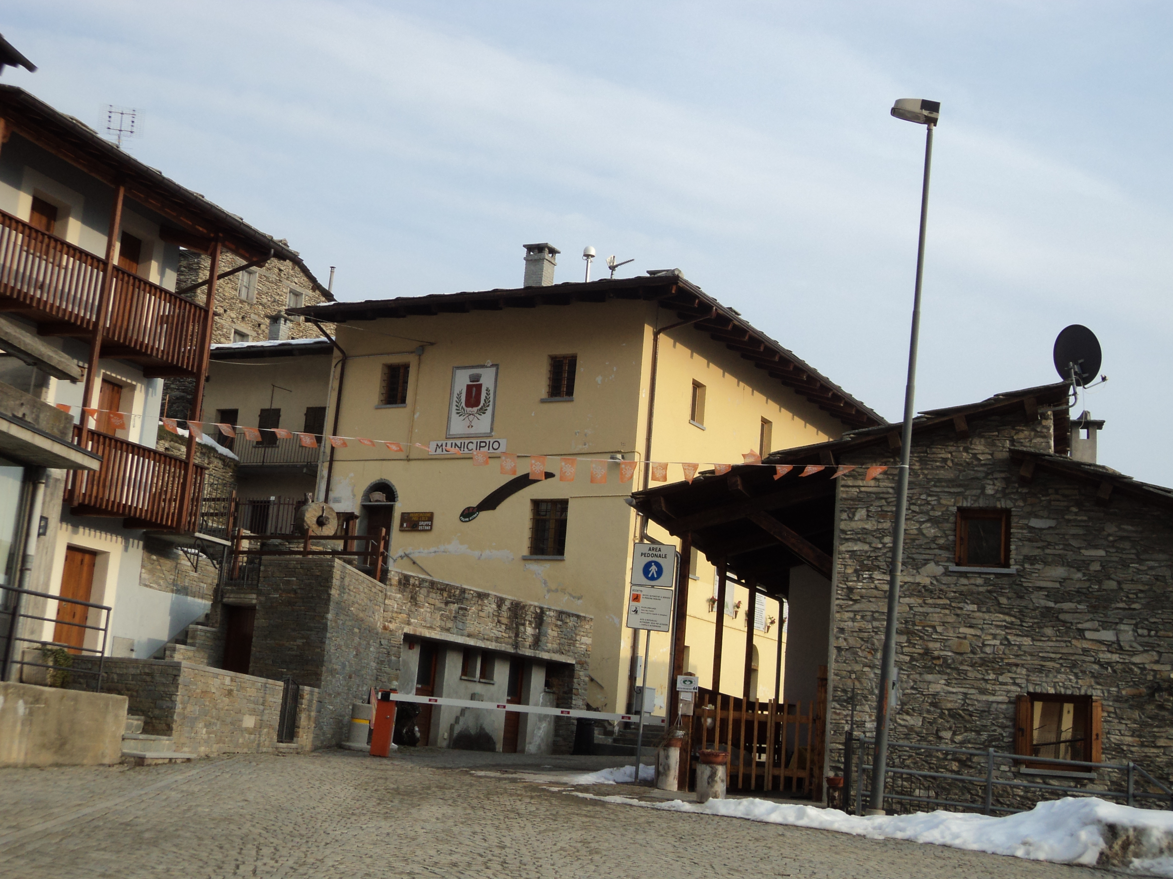 Ostana - Province of Cuneo - Piedmont - Italy